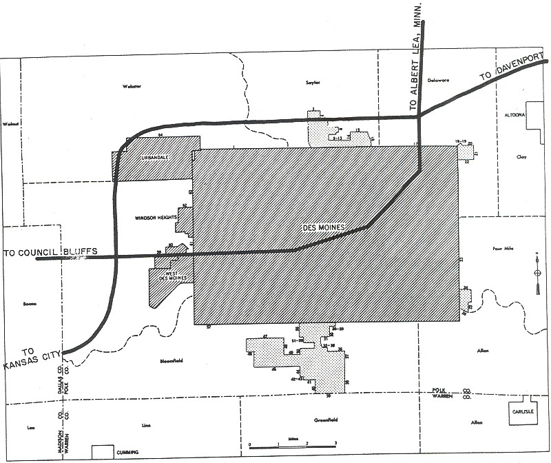 Interstates in today's terms I-35 I-80 I-235